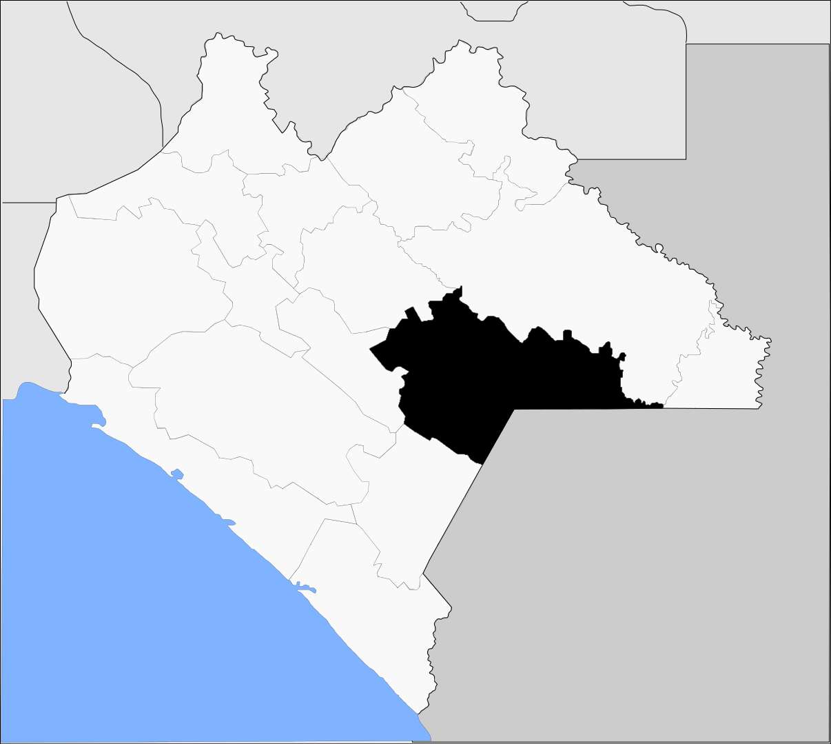 Map of the Region XV - Meseta Comiteca in the State of Chiapas.